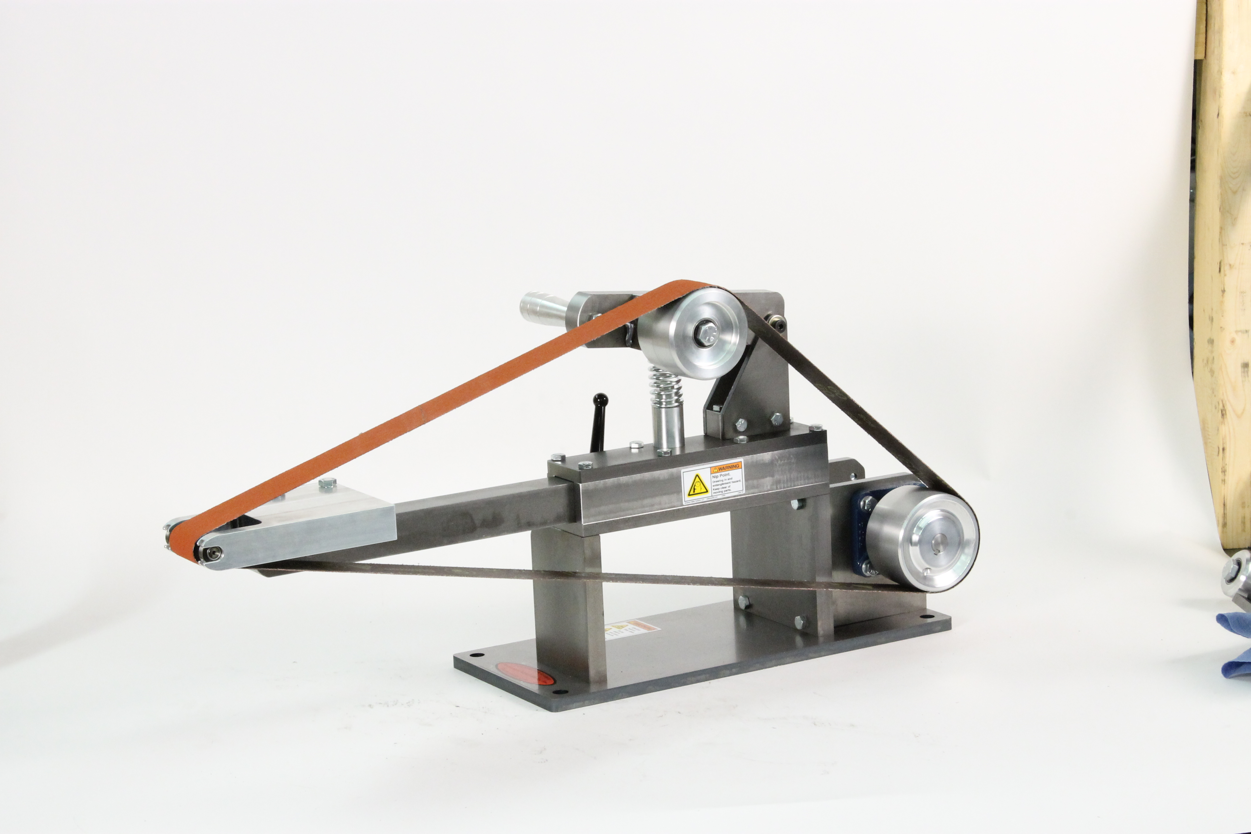 This grinder features an attachment which allows the use of interchangeable small wheels from 7/8" diameter to 2" diameter -- allowing the grinding of the small curves needed for knife handles. This attachment is available from Beaumont Metal Works and fits the KMG series grinders.